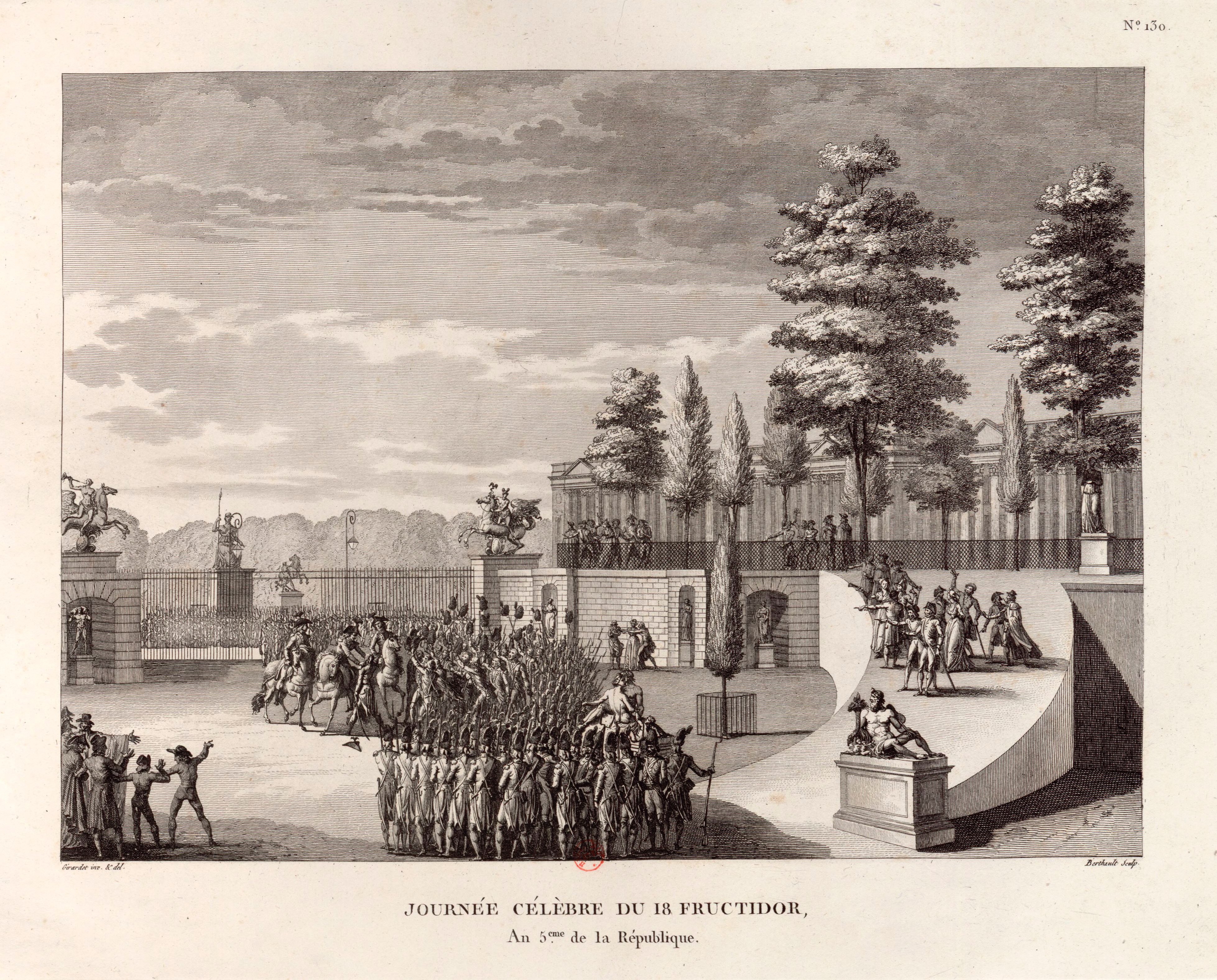 Being sent by Napoleon from Italy, Pierre Augereau and his troops storm Tuileries and capture Generals Charles Pichegru and Willot. Coup d'état of 18 Fructidor, year V (4 Sept 1797). Engraving by Berthault, based on a drawing by Girardet.